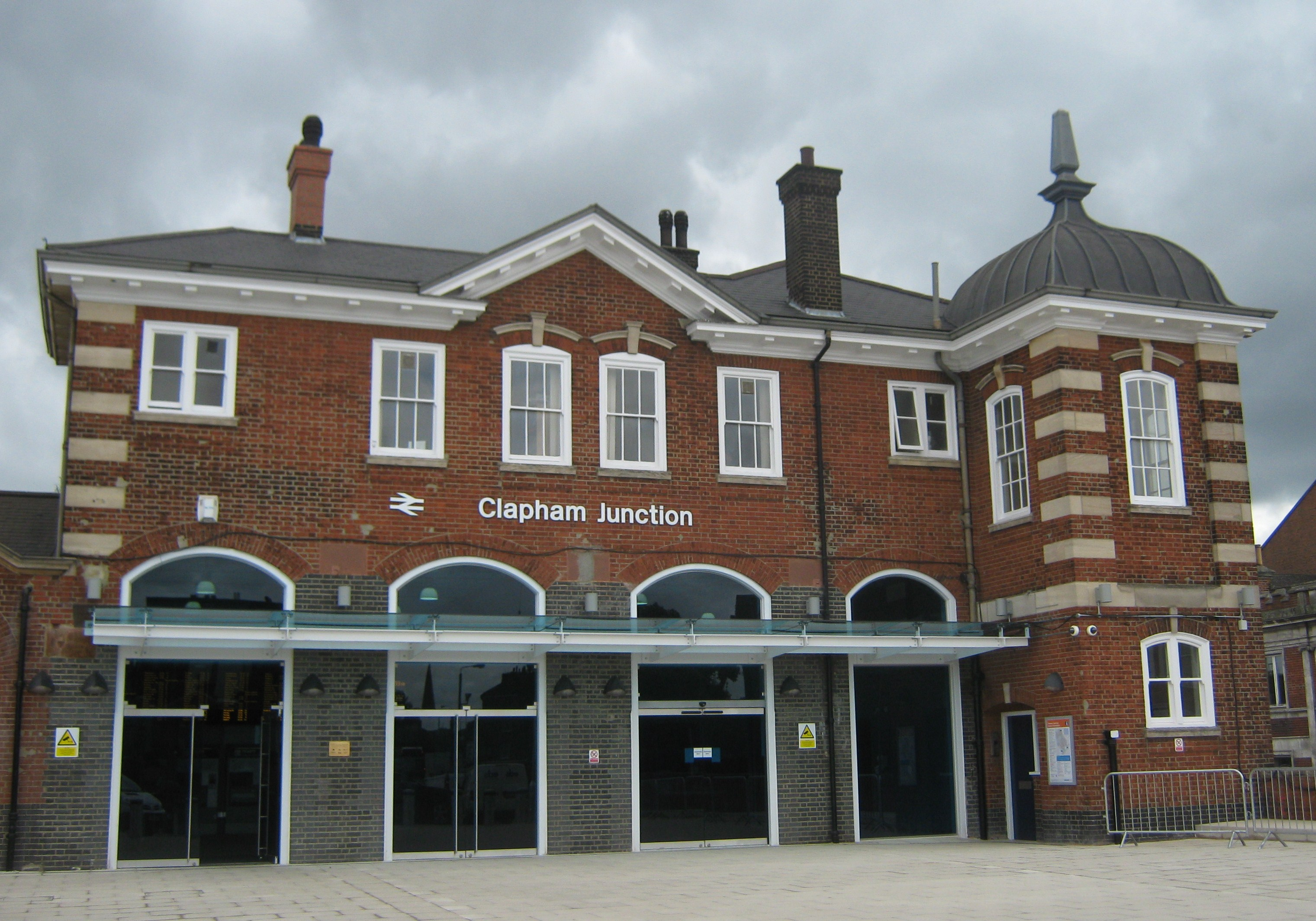 The South West entrance to Clapham Junction Railway Station in London, England, also known as the Brighton Yard entrance. This picture was taken on 27 May 2011, shortly after this entrance was opened to the public. The view is looking in an approximately easterly direction; the platforms and railway lines are the left of the image, and St John's Hill is to the right of the image..